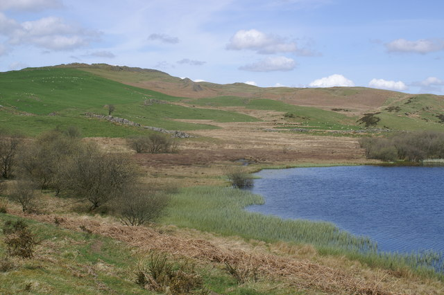 Llyn Mawr. The western half of this nature reserve and SSSI lies under the attractive slopes of Craig y Llyn-mawr.